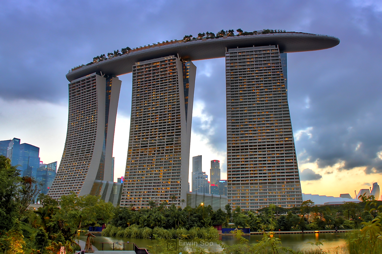 Marina Bay Sands from Gardens by the Bay (south)